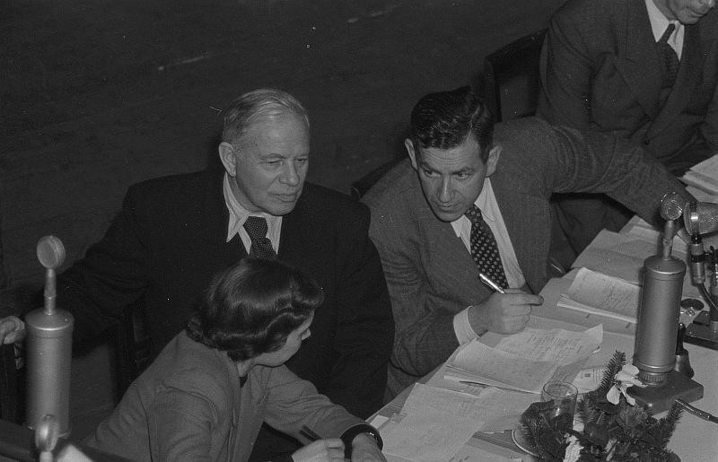 Original image description from the Deutsche Fotothek Prof. Dr. Maxim Zetkin; Prof. Dr. Samuel Mitja Rapoport (rechts)